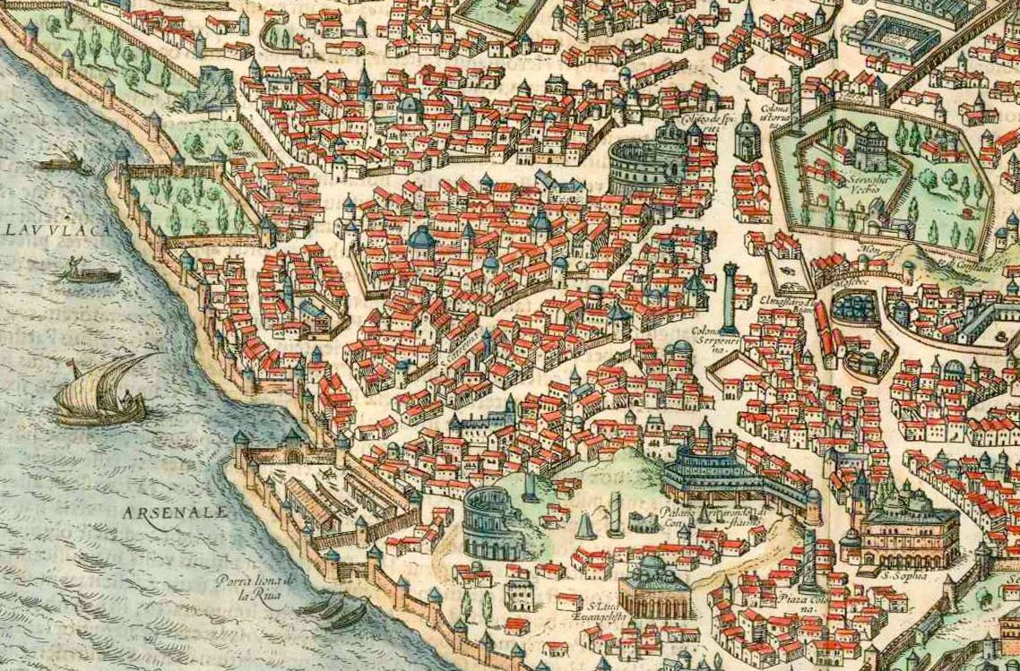 Particular of the Marmara region of Constantinople, from Braun and Hogenberg, 1572